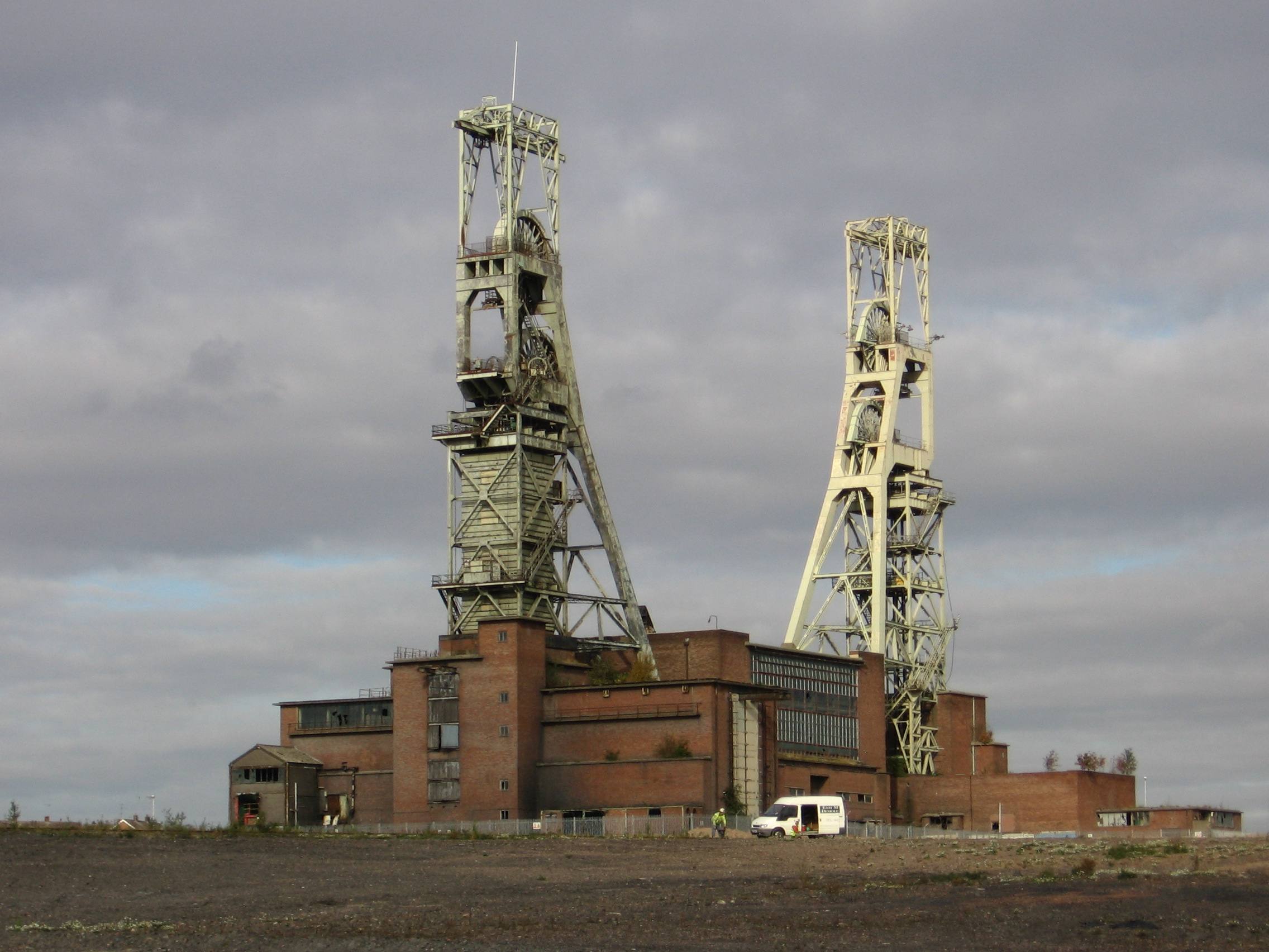 Clipstone - colliery headstocks